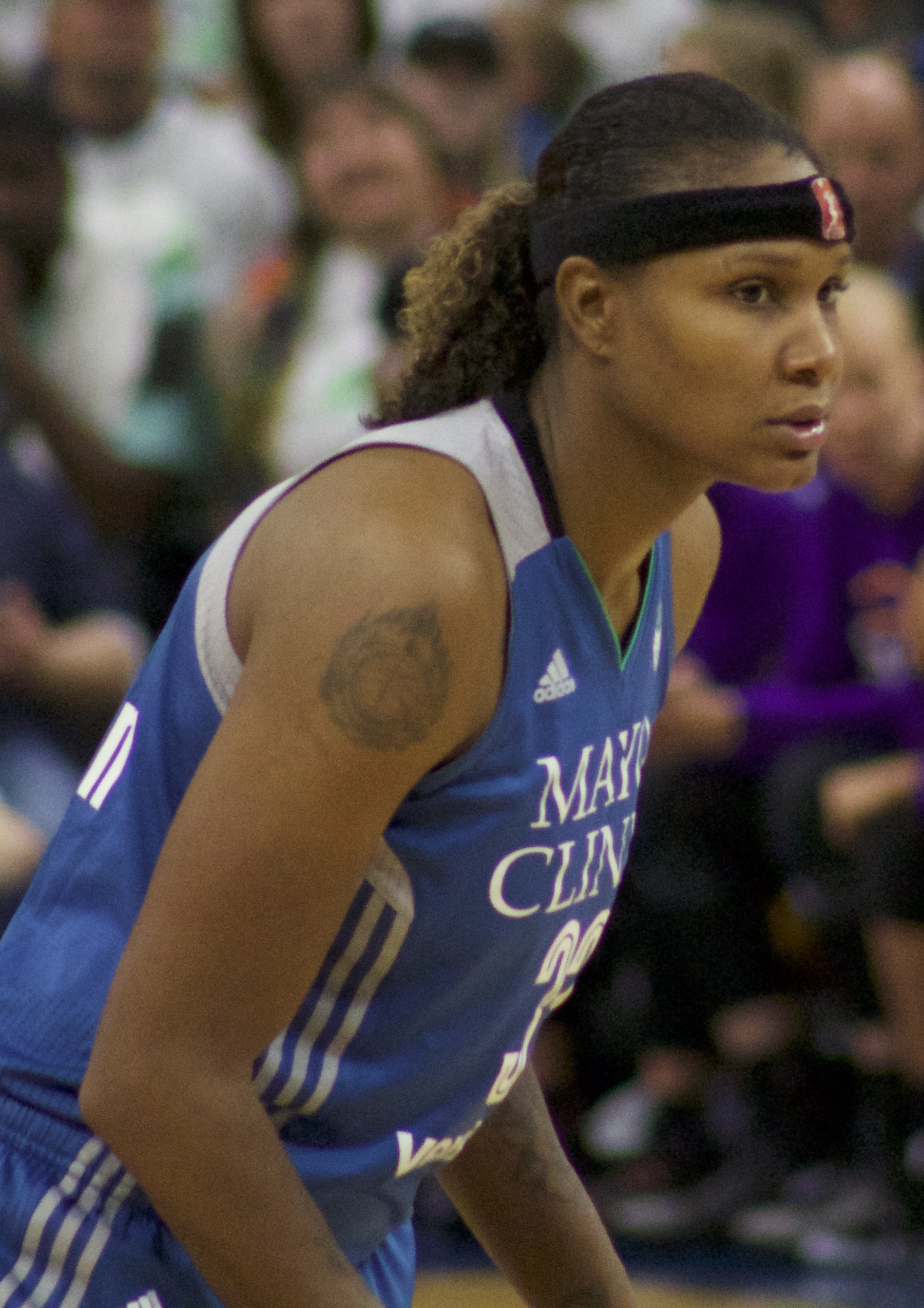 Rebekkah Brunson of the Minnesota Lynx